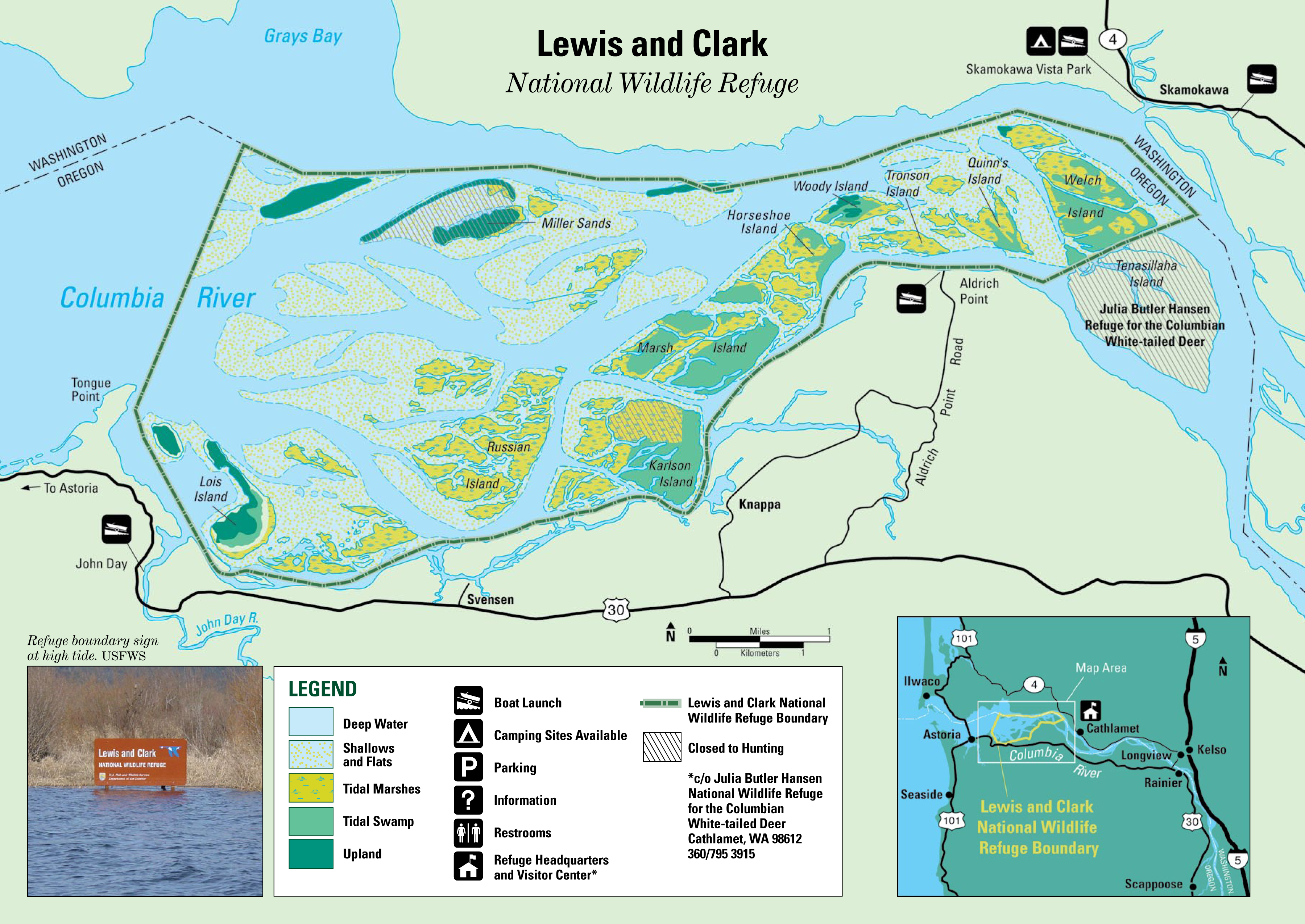 Map of the Lewis and Clark NRW in Oregon and Washington